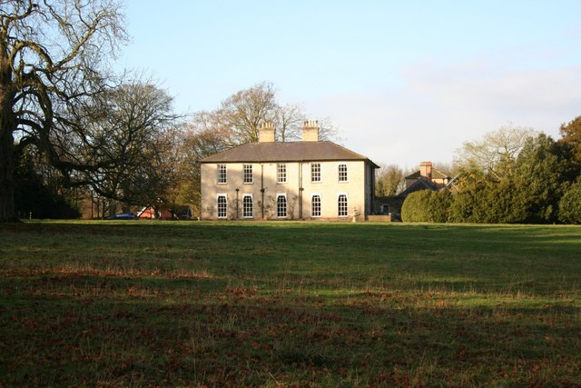 Market Stainton Hall: Handsome house in mature parkland at Market Stainton.